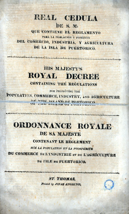 His Majesty's Royal Decree